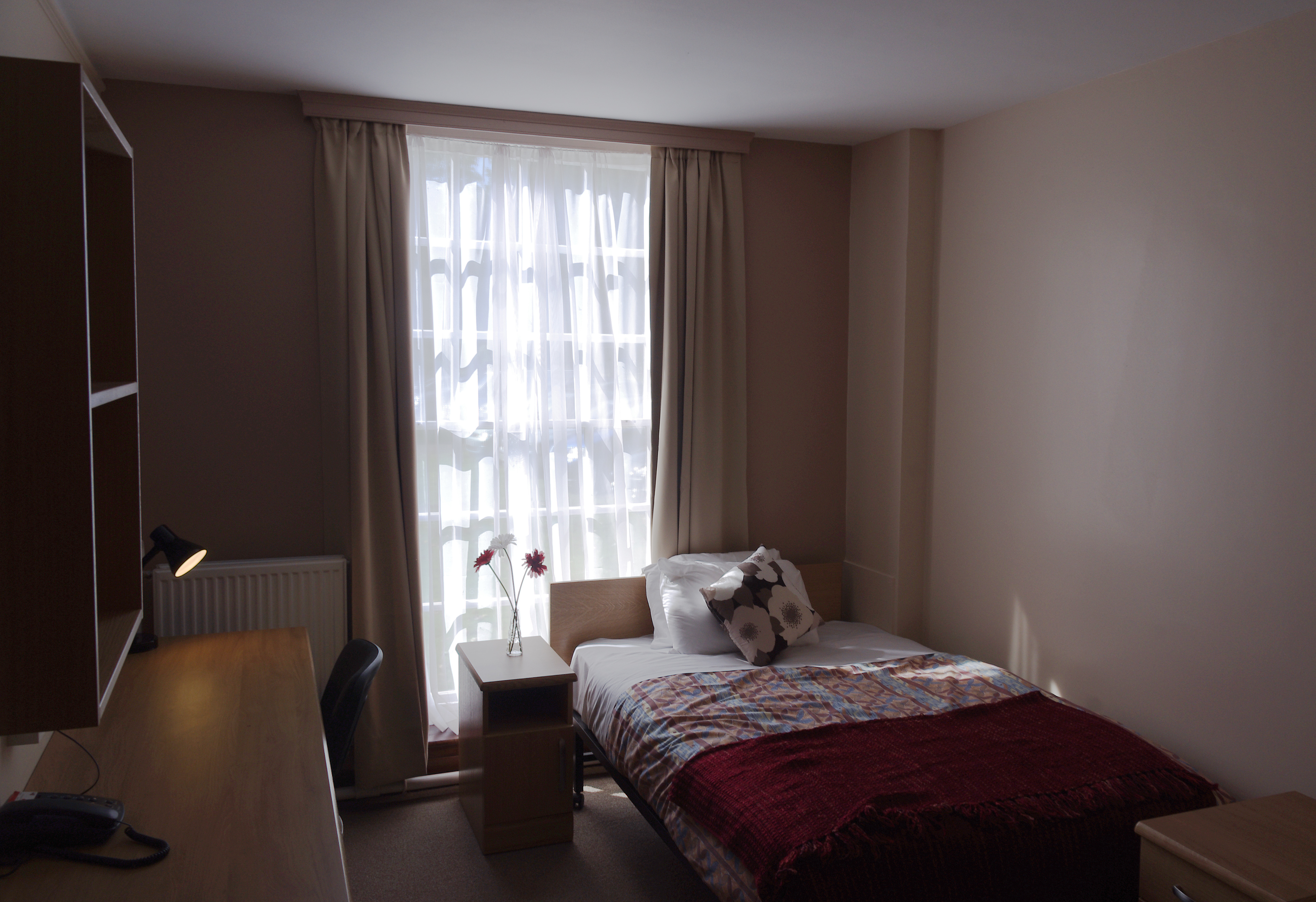 Interior of a single study bedroom in Cripps Hall at the University of Nottingham.